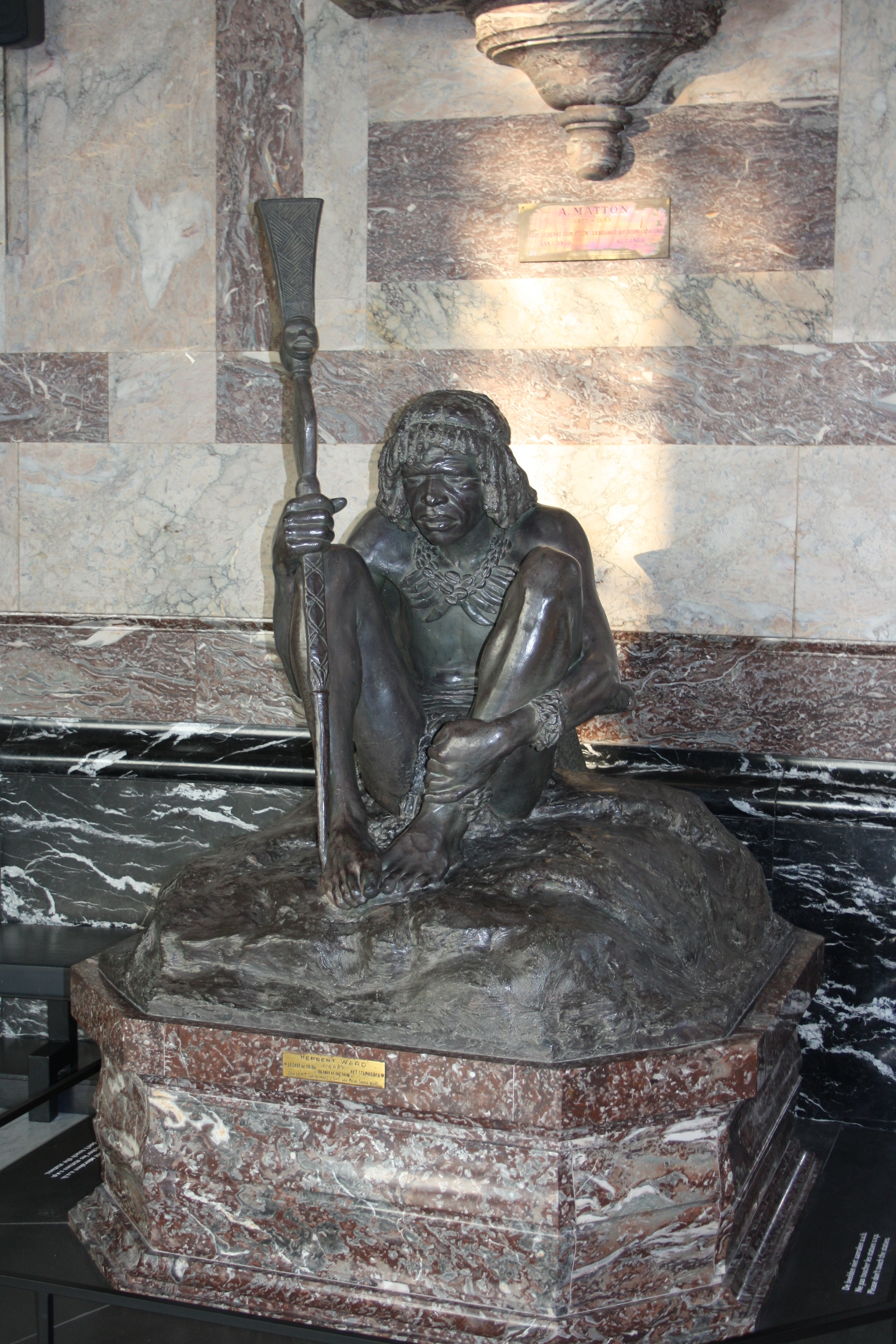 Sculpture The Chief Of The Tribe by Herbert Ward in the hall of the Royal Museum for Central Africa, Tervuren, Belgium.